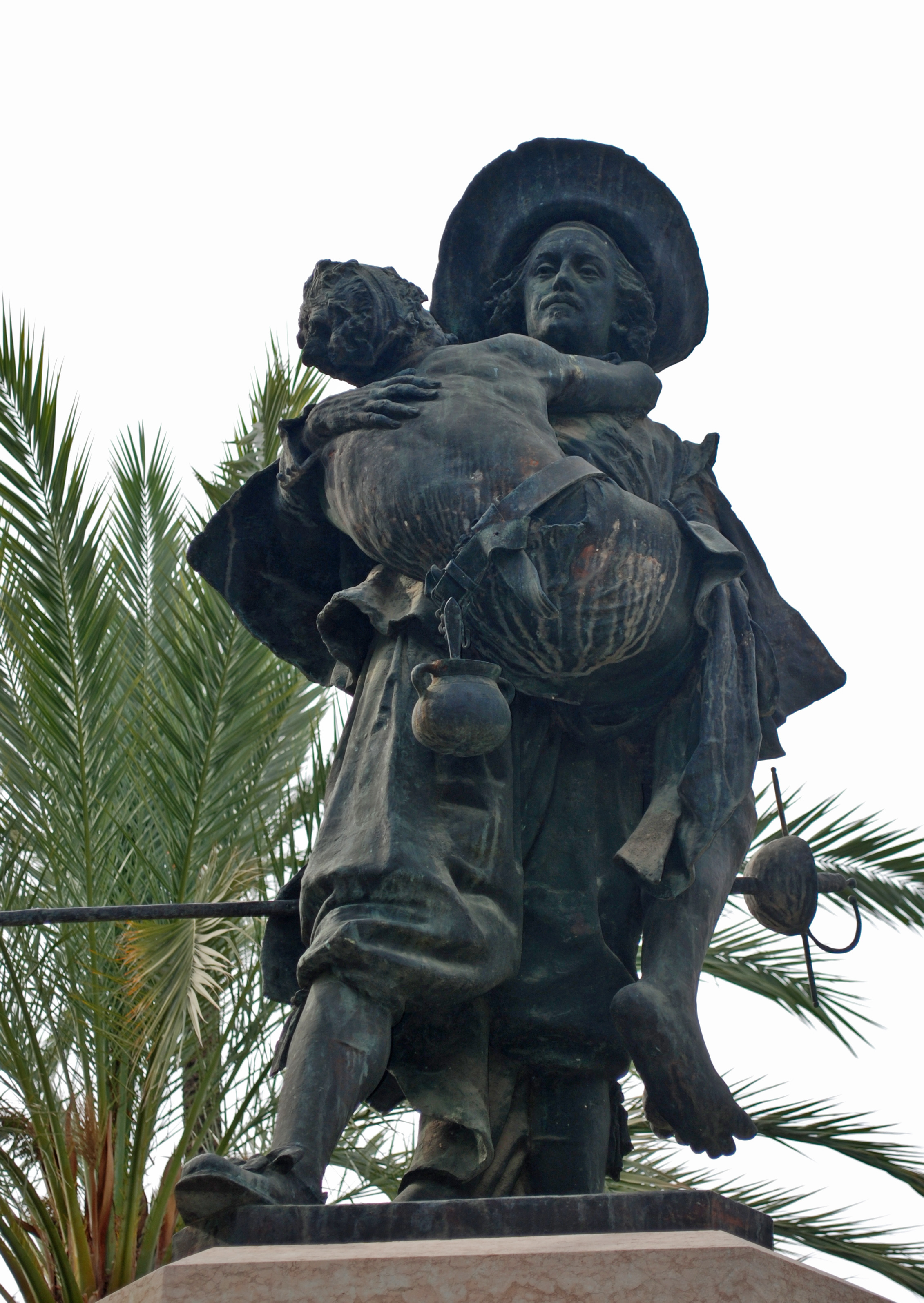 Statue of Miguel de Mañara, in Seville by Antonio Susillo